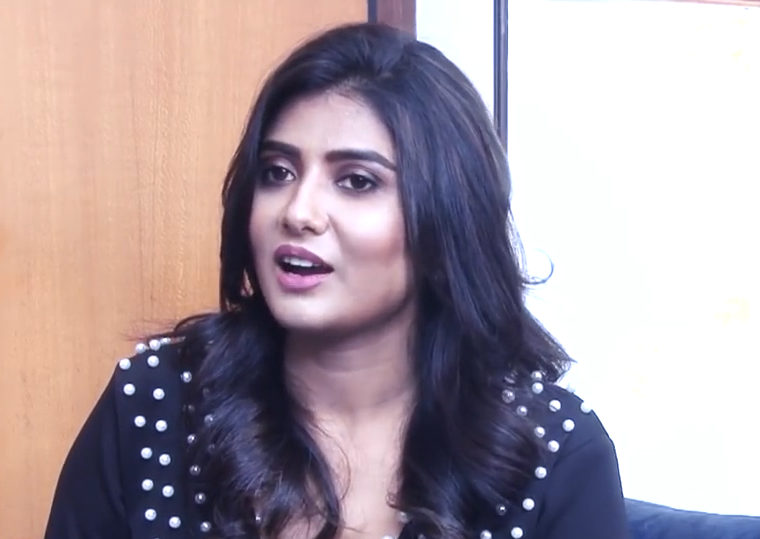 Parno Mittra interview photo